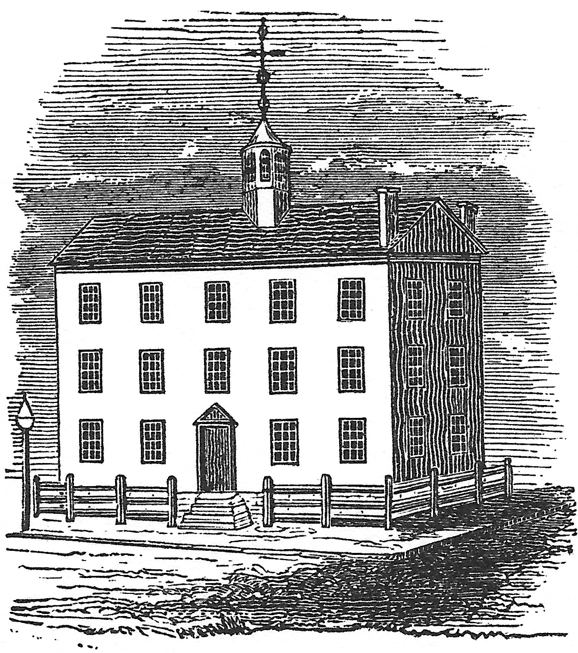 Albany City Hall, built circa 1743.